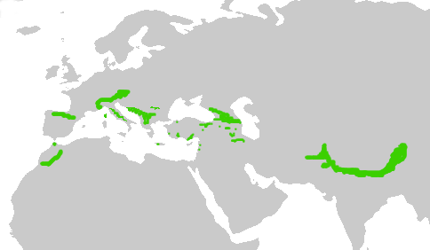 Description: (English) Range of Alpine Chough Pyrrhocorax graculus Source Own work by uploader Author Jimfbleak Date 25 May 2009 Base map BlankMap-World-noborders.png Mapping based on Arlott, Norman (2007). Birds of the Palearctic: Passerines. London: Collins p.219 ISBN 9780007155651 Madge, Steve; Burn, Hilary (1994). Crows and Jays: A Guide to the Crows, Jays and Magpies of the World A & C Black. p. 40. ISBN 0007147058 Snow, David; Perrins, Christopher M (editors) (1998). The Birds of the Western Palearctic concise edition (2 volumes). Oxford: Oxford University Press p.1464 ISBN 019854099X.